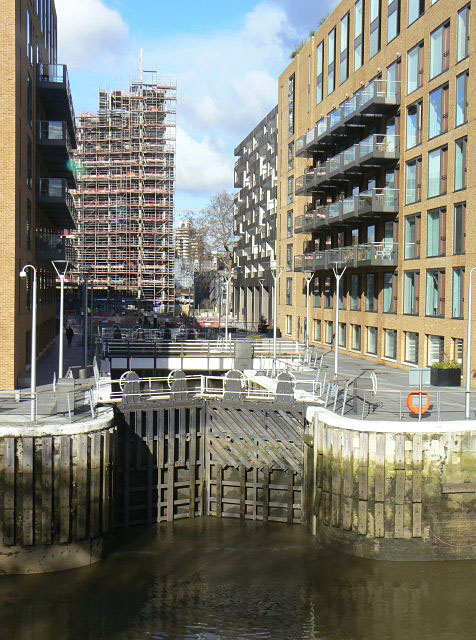 Grosvenor Canal, bottom lock gates. The canal was one of the shortest in London, but was surprisingly in use until recent years as for the removal of domestic refuse. Now the basin has been built over, leaving the lock useless and forlorn in the middle of new housing development. Note the change since Pam Fray's view of less than a year previously 729874. The following description of the canal comes from the London Canal Museum website: This small canal was opened in 1825, and ran on land in Lord Grosvenor's estate, from the Thames to Grosvenor Basin. The site of the basin is now covered by Victoria Station. The top part of the canal was closed to enable the station complex to be enlarged in 1899. The remaining short length of canal was purchased in 1906 by Westminster City Council. A further section was in-filled in 1927 to provide space for housing. The Council's interest in the canal was sustained, despite its deterioration, because its principal traffic was refuse collected by the authority for disposal. For almost a year from July 1928 the canal was closed for major repairs and improvements to facilitate this important traffic. In the late 1940's and early 1950's other local authorities added their refuse to the traffic carried.